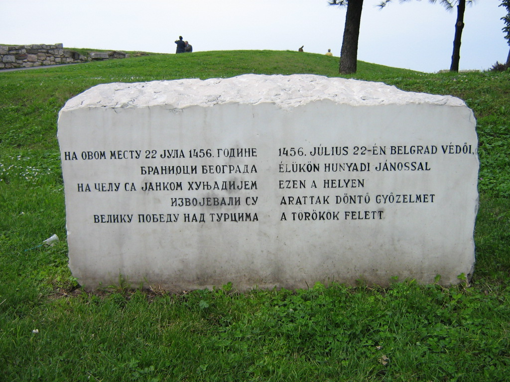 Stone in the Kalemegdan park, in Belgrade, with engraved inscription on the place where Christian forces under command of Janosh Hunyadi won the battle against the Turks in the year 1456.